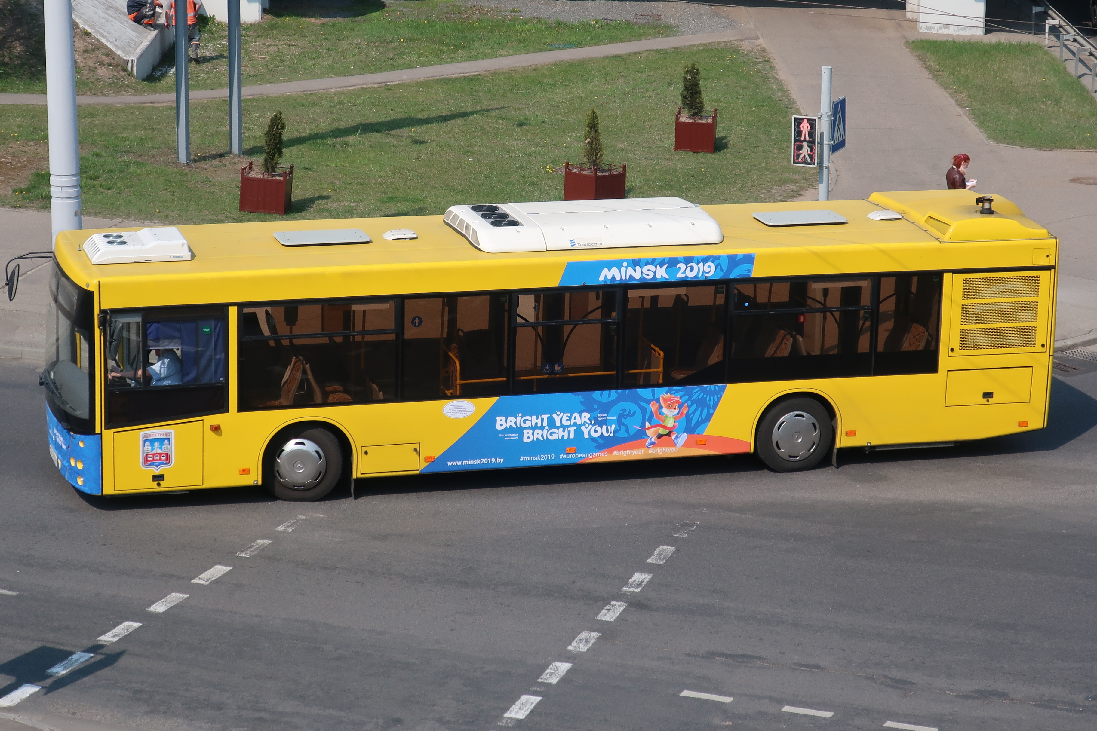 MAZ-203 bus (route 127a) in Minsk, Belarus